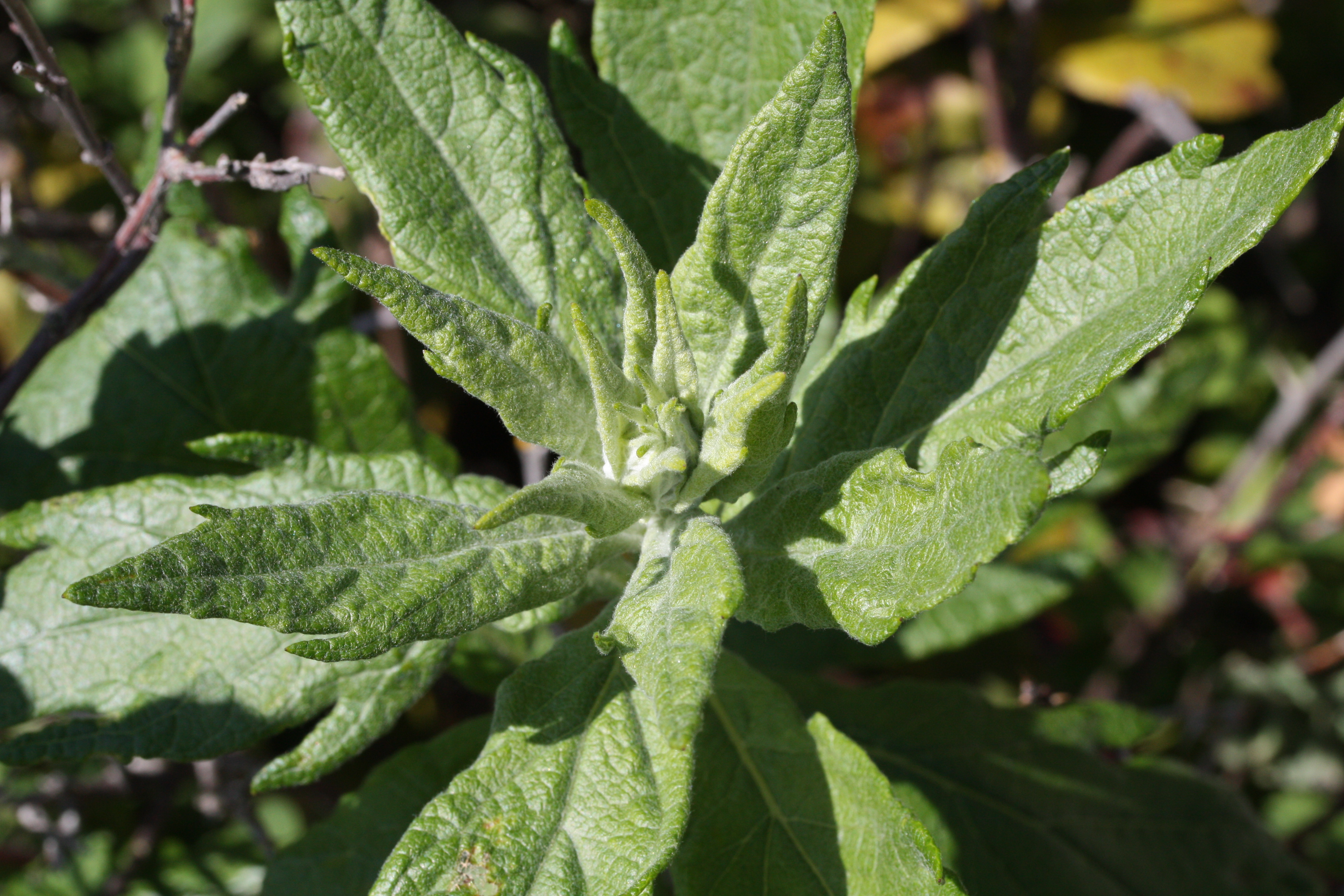 Coastal Wormwood, Coastal Mugwort, Suksdorf's Sagewort; auth. Piper